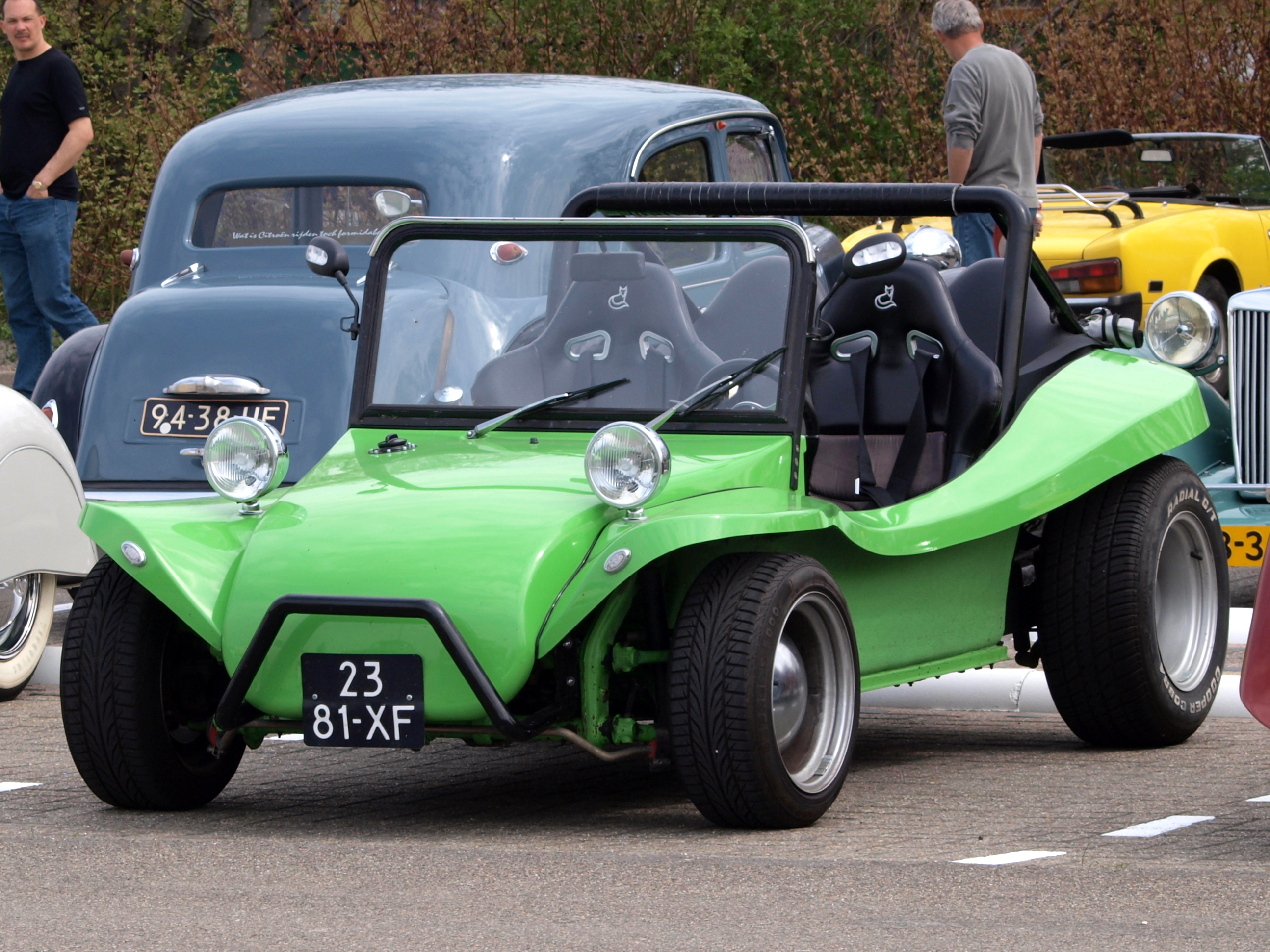 Photographed at Valkenburg, The Netherlands. OLYMPUS DIGITAL CAMERA